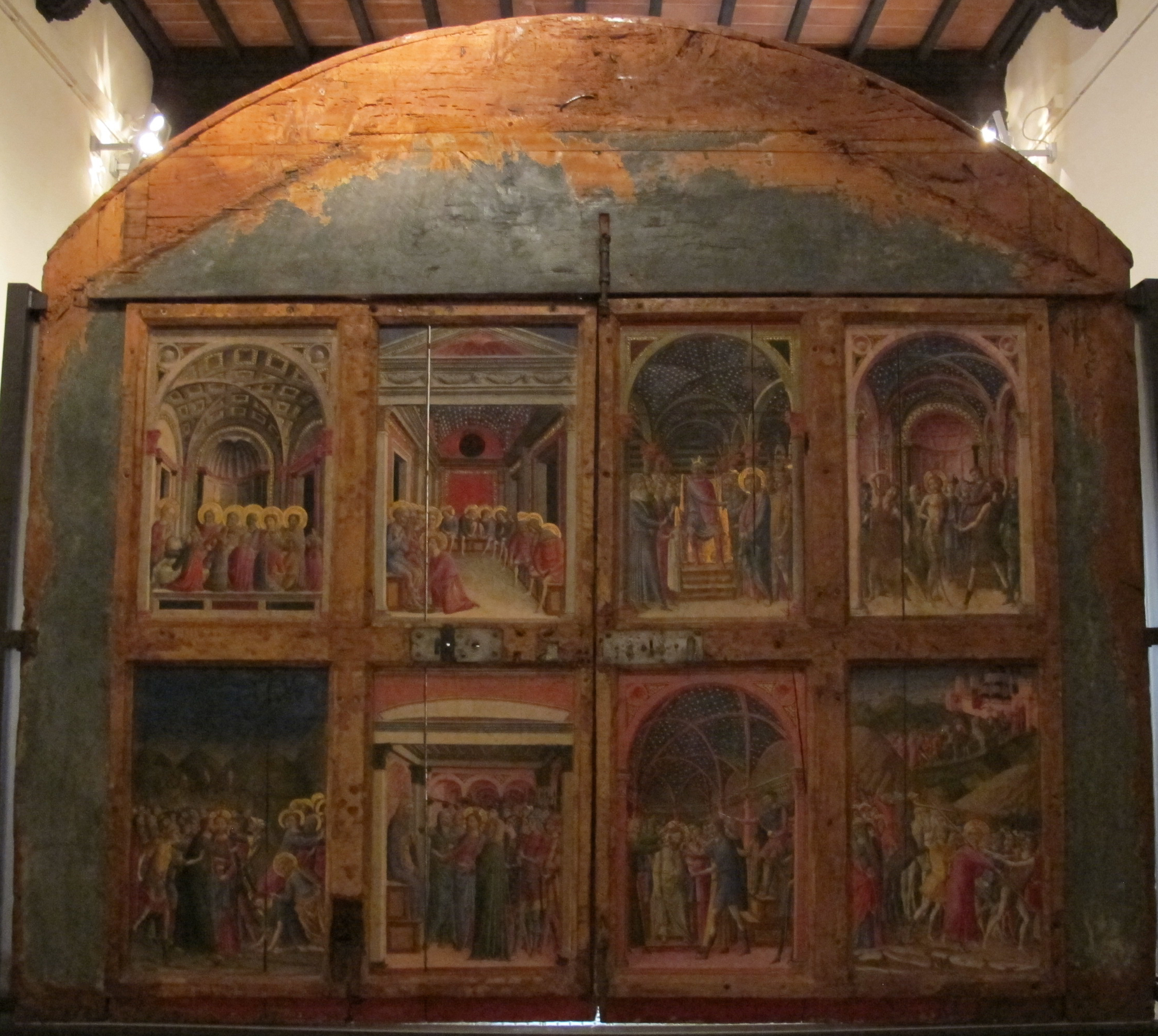 Painting in the National Pinacotheque, Siena